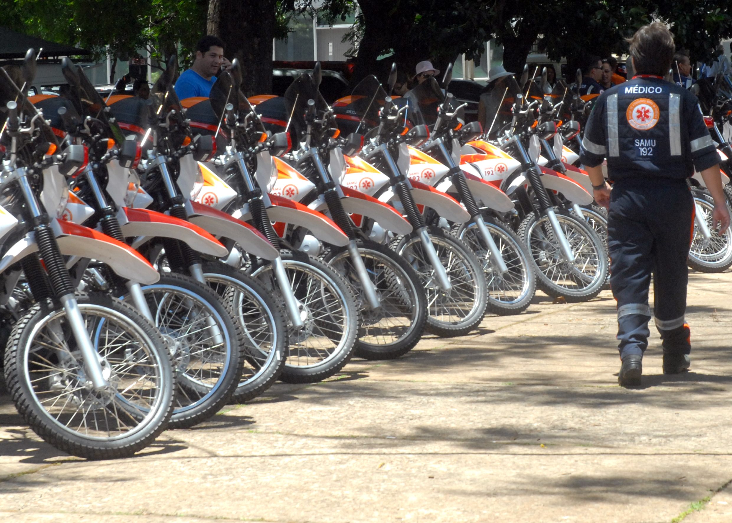 SAMU motorcycle ambulances in the Brazilian Federal District